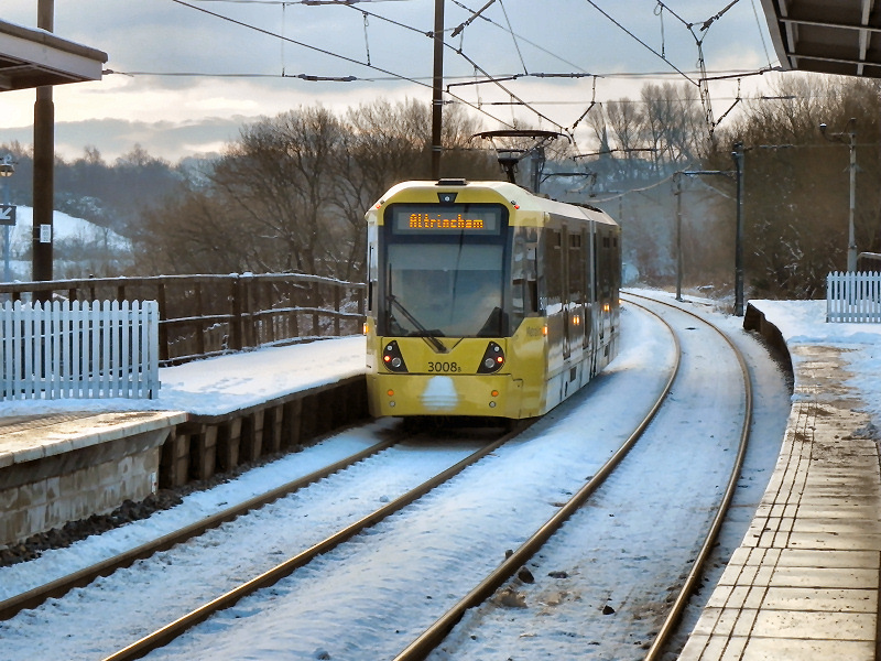 Metrolink tram mumber 3008 leaving the Manchester-bound platform at Radcliffe, destined for Altrincham.